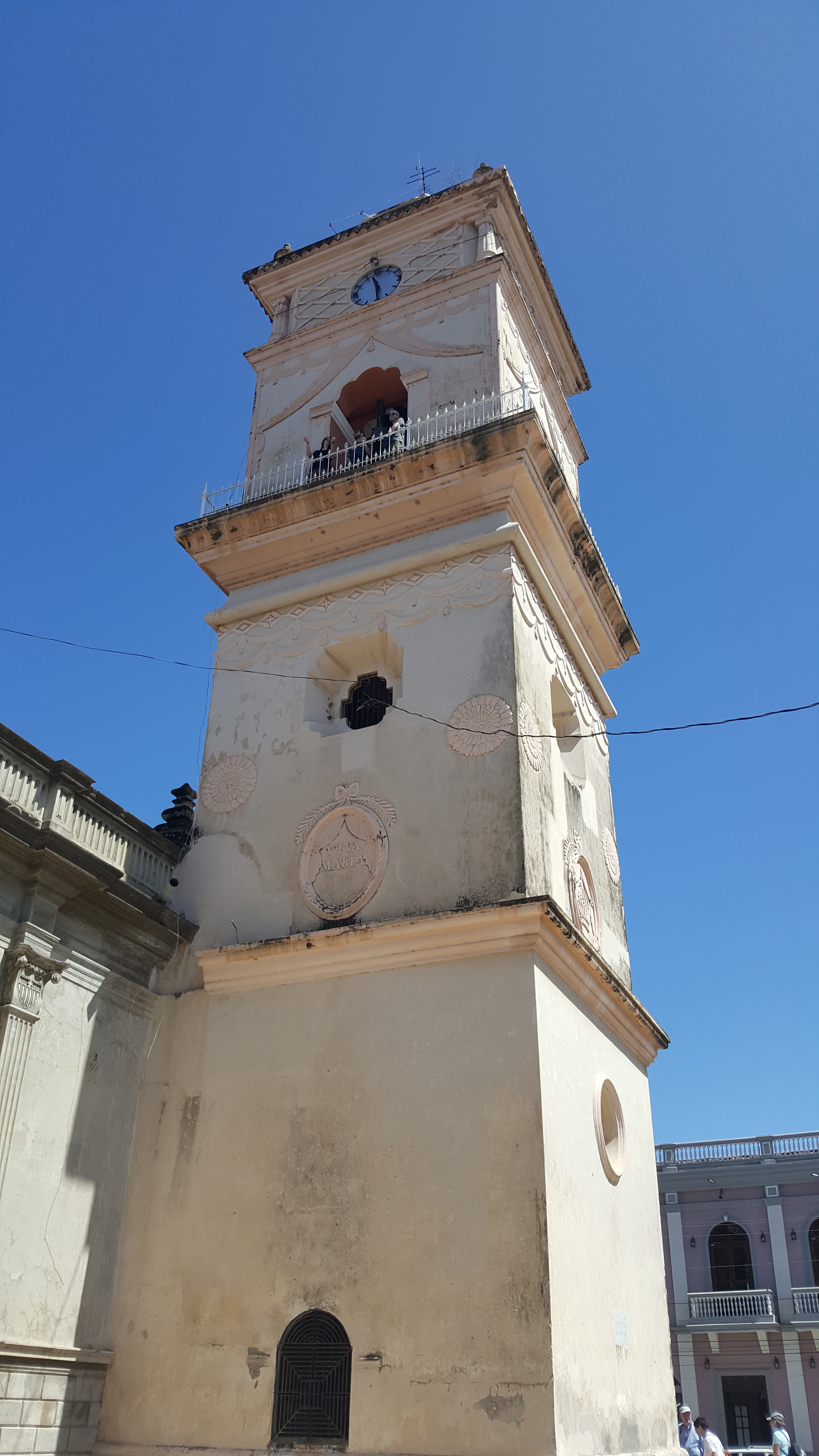 Tower of La Merced, Granada, Nicaragua